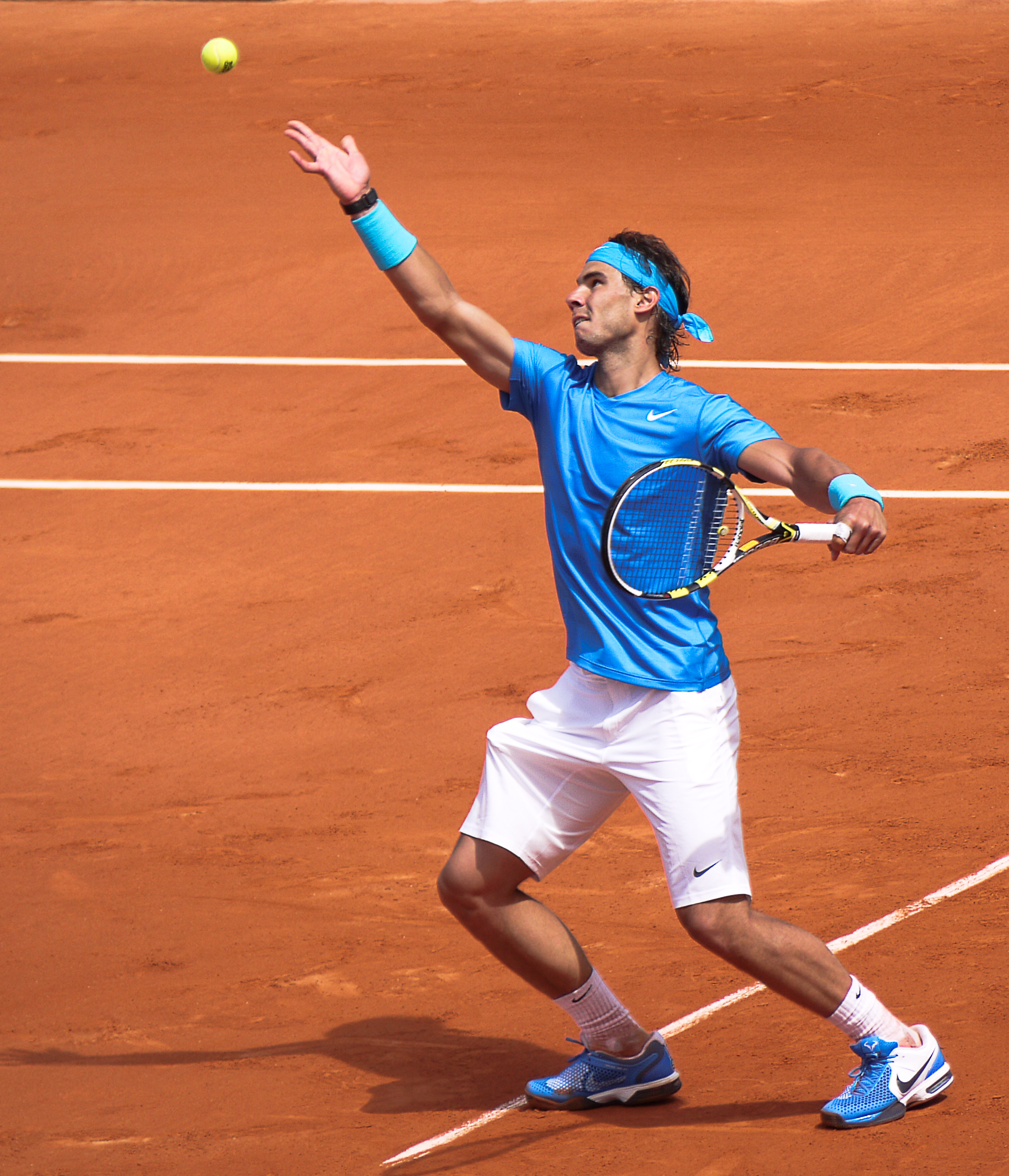 Nadal serving against Isner